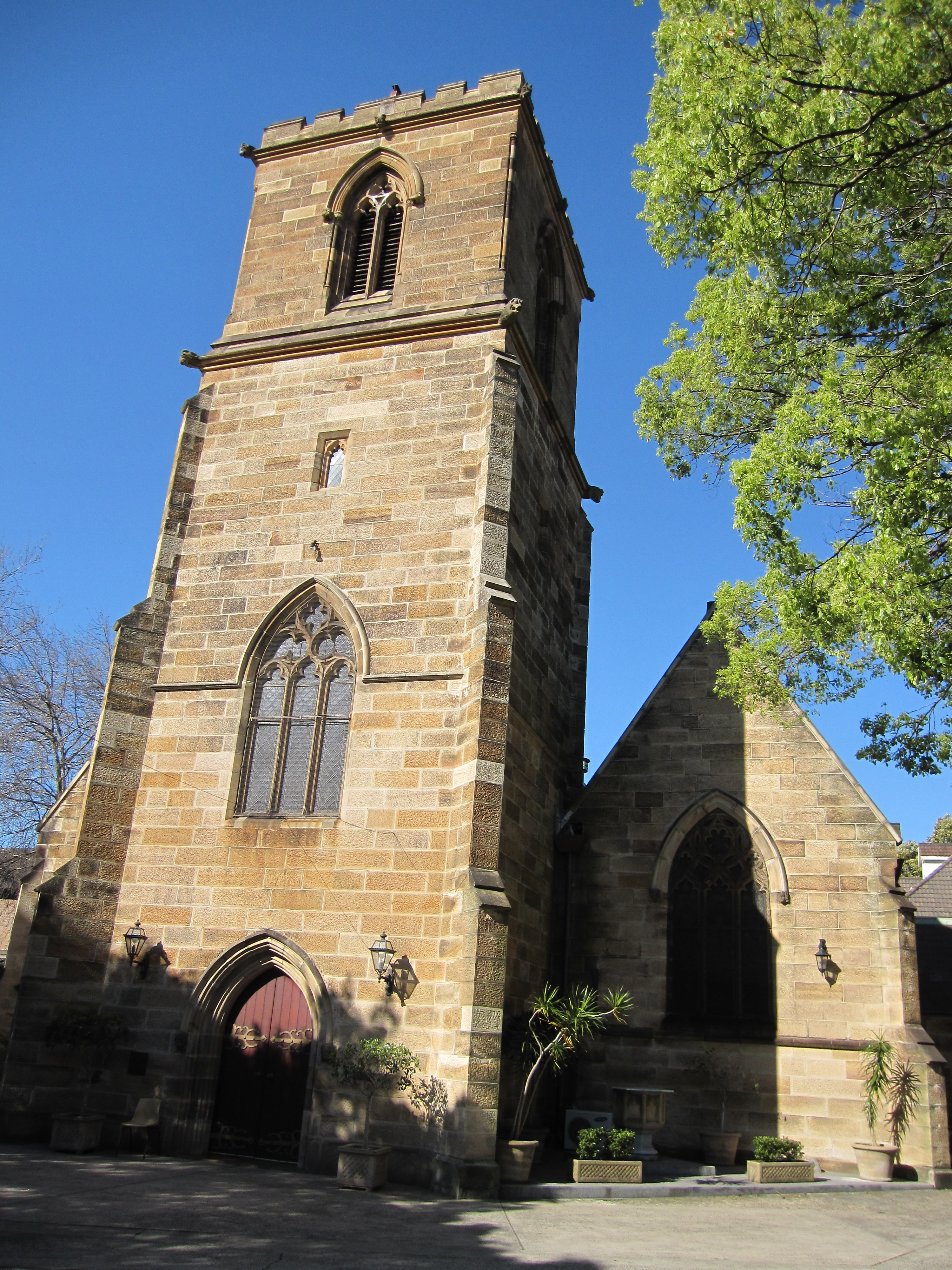 The Cathedral of the Annunciation of Our Lady, Greek Orthodox Church, Cleveland Street Redfern, New South Wales, Australia.